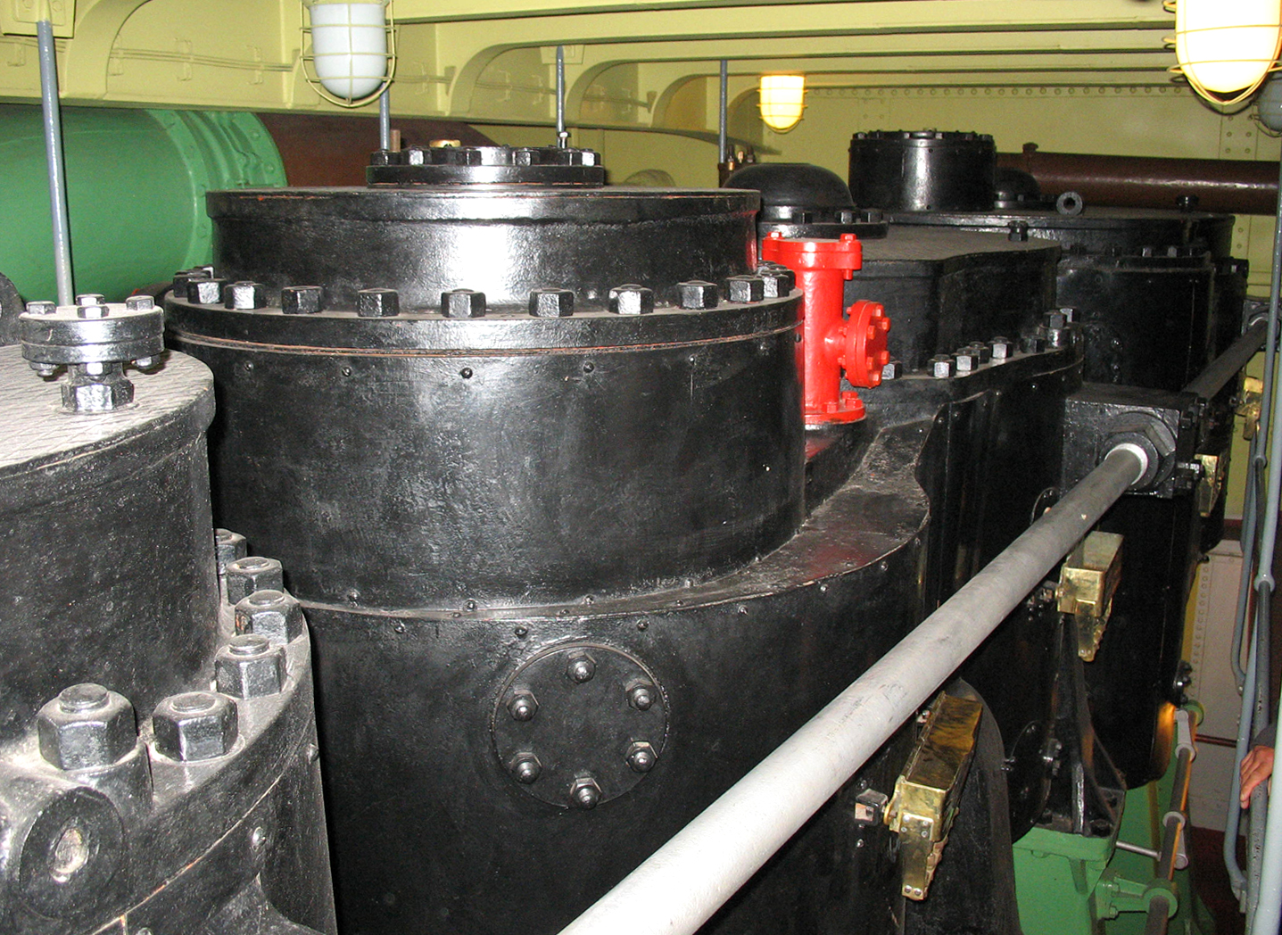 Steam engine of the cruiser Aurora